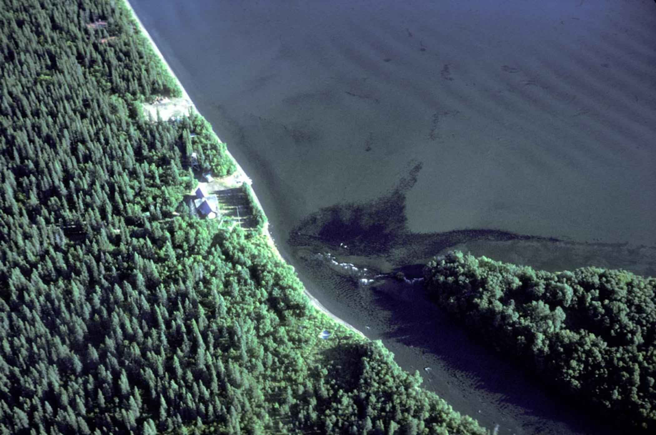 Image title: Salmon run at Brooks camp Katmai national park aerial view Image from Public domain images website